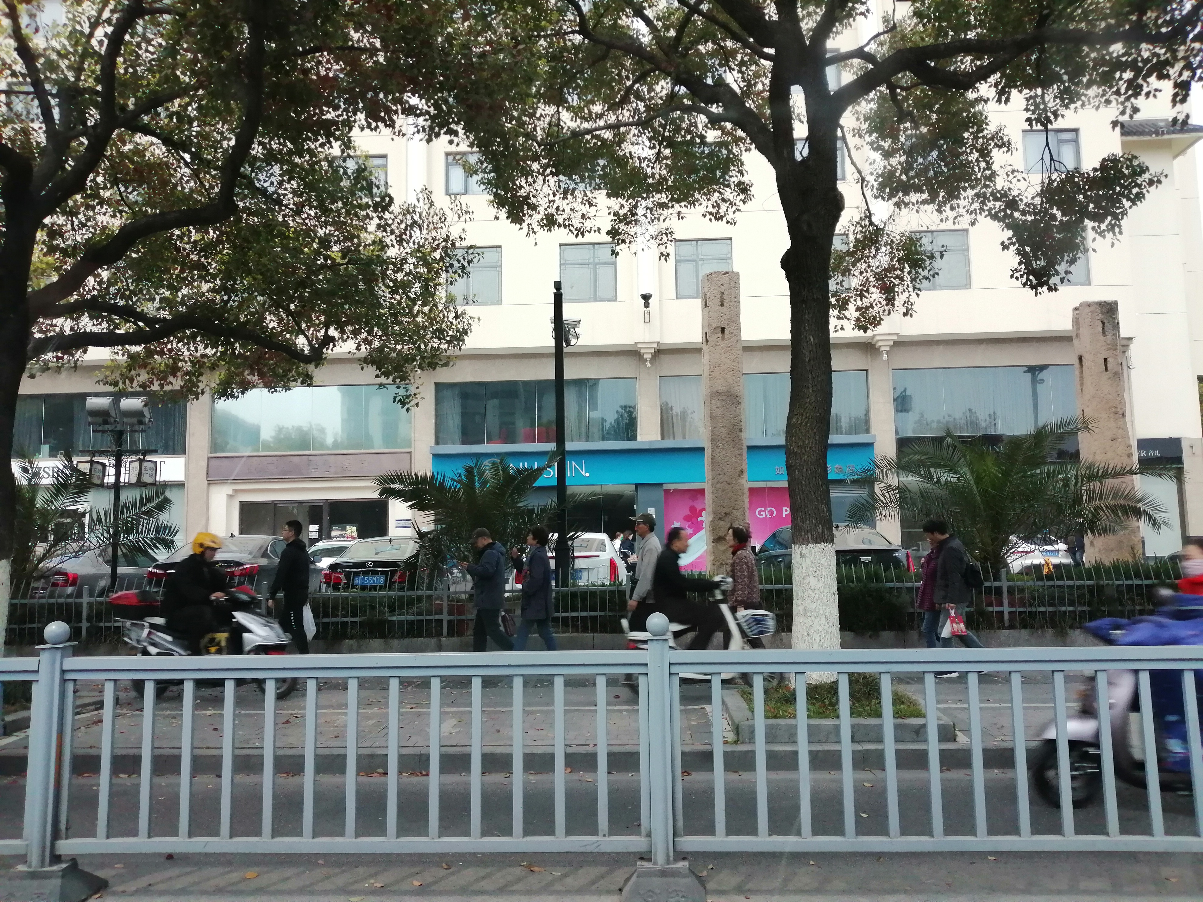 A Nu Skin store located in Gusu District, Suzhou, China. Is this the next Quanjian? 中文（中国大陆）: 位于江苏省苏州市姑苏的如新专卖店。下一个权健？